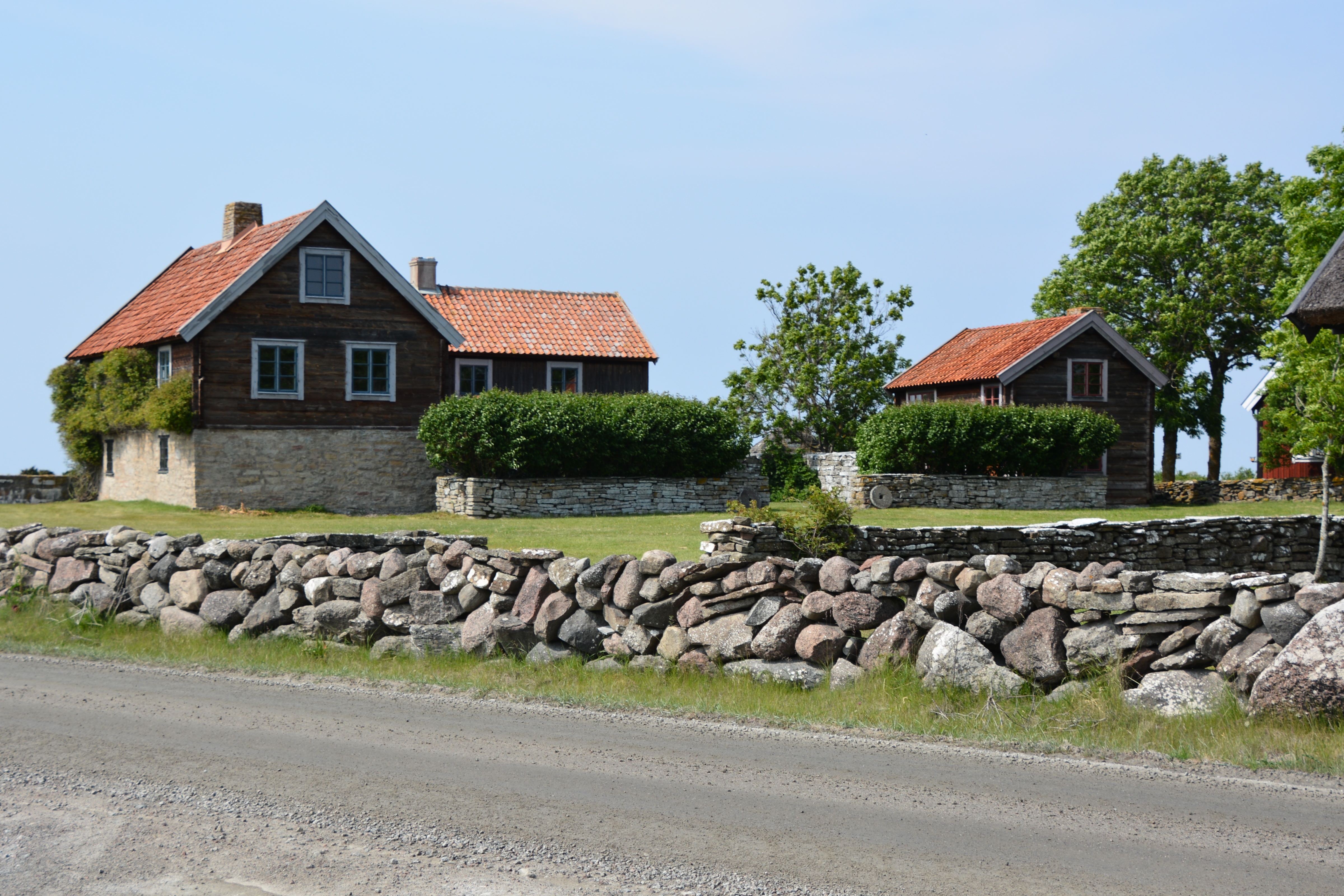 Sture Lundgrens hus i Gillberga by på Öland